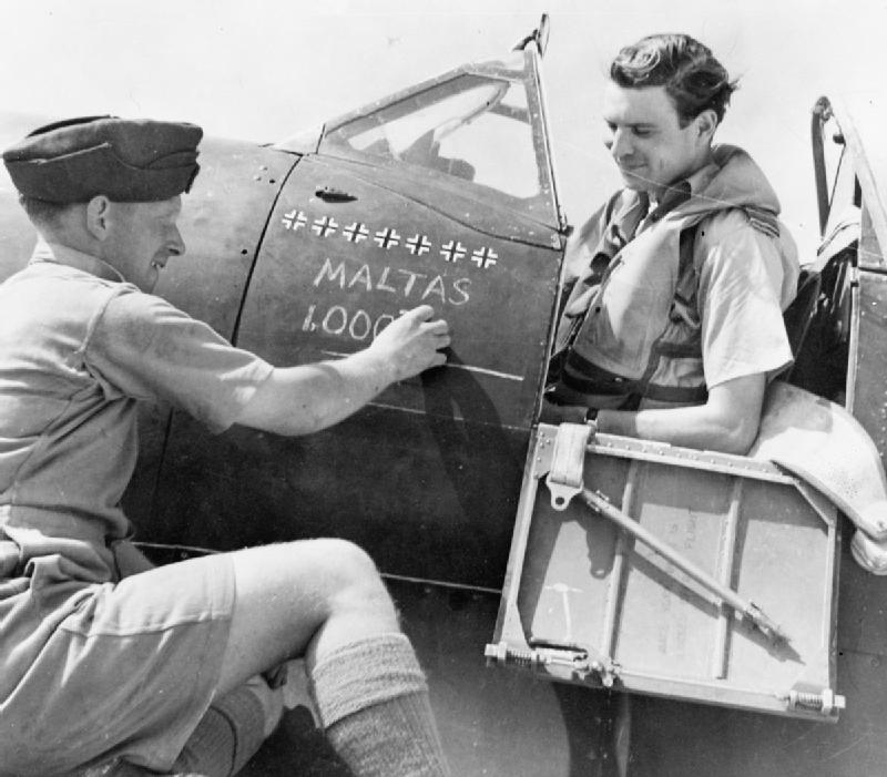 Royal Air Force Operations in Malta, Gibraltar and the Mediterranean, 1939-1945. Squadron Leader J J Lynch, Commanding Officer of No. 249 Squadron RAF, sits in the cockpit of his Supermarine Spitfire Mark VC at Krendi, Malta, as an airman chalks "Malta's 1,000th" below his victory tally. Lynch, an American who joined the RAF in 1941, served with No. 71 (Eagle) Squadron RAF in the United Kingdom before being posted to 249 Squadron in Malta in Novembe 1942. He became a flight commander in early 1943 and was given the command of the Squadron in March. He enjoyed much success during operations over the sea route between Sicily and Tunisia, and, on the 28 April 1943, shot down a Junkers Ju 52 five miles north of Cap Cefalu which was assessed as being the 1,000th enemy aircraft shot down by Malta-based units since the start of the war. Lynch transferred to the USAAF in July 1943 having scored 10 and 7 shared victories with the RAF.